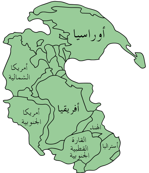 Pangea map, with names of the continents. Image of pangaea made by User:Kieff.